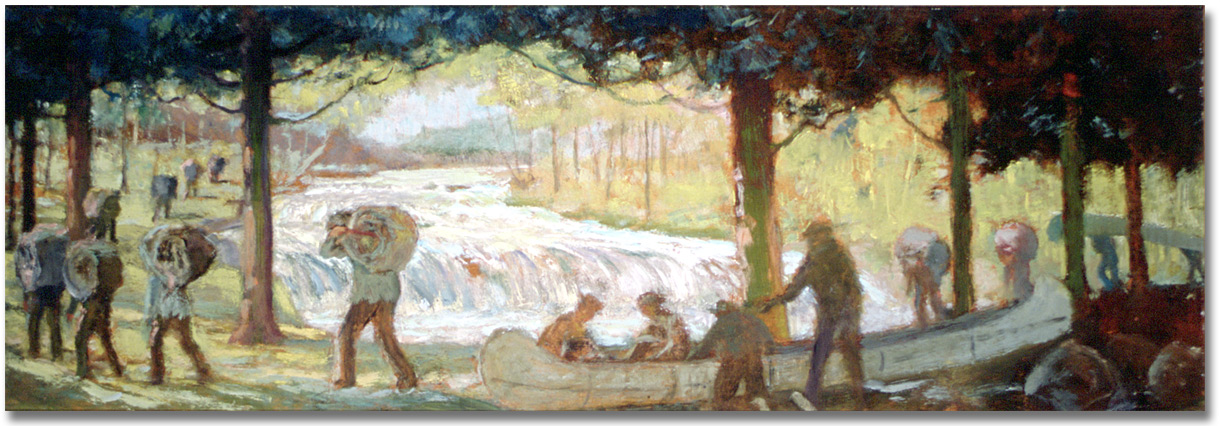 The Short Portage -- The Carrying Place, La Salle on the way over the Humber River to the Holland River and on to Lake Simcoe - Oil on board, 29.8 x 87.6 cm (11.7" x 34.5") - Government of Ontario Art Collection, 532970 « the Carrying Place routes and other trails facilitated a large amount of trade and movement throughout Southern Ontario, both by First Nations people and by colonizers. » – oala.ca